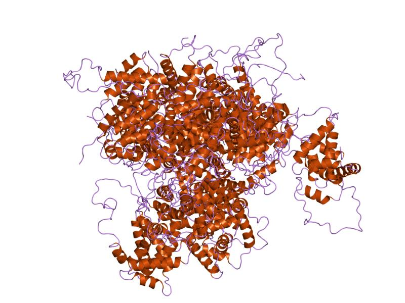 Cartoon representation of the molecular structure of protein registered with 2bid code.